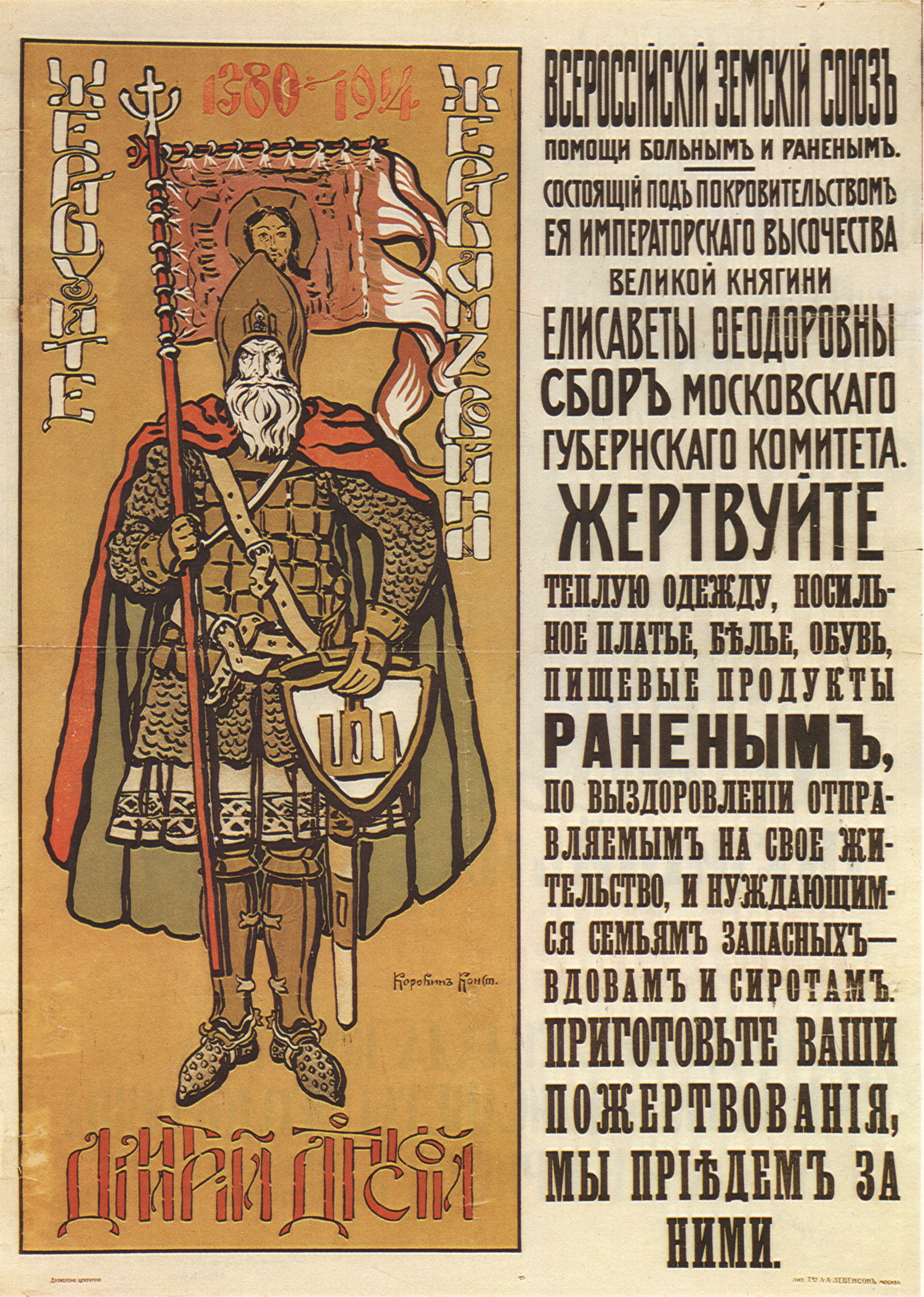 Korovin, Konstantin Alekseevich (1861-1939). Donate to victims of war. Dmitry Donskoy. 1380-1914. Poster, Moscow, 1914. Cromeum lithograph, 124.5 x 92 cm